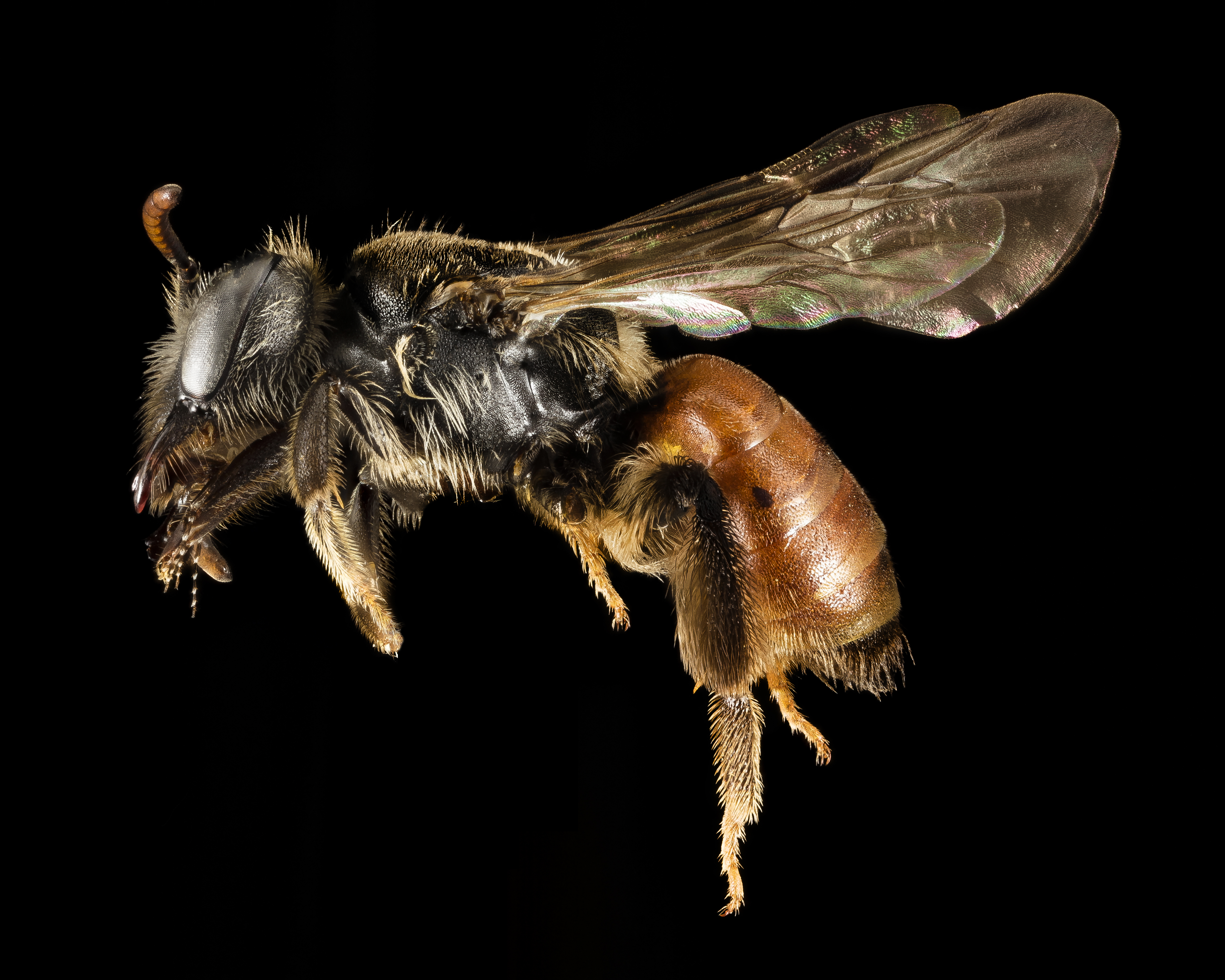 Andrena hybrida: A small bee from the Grecian Isles, ...interesting in that unlike the hundreds of others of its Andrena kinfolk, rather than appearing all black has the size, shape, and coloration of a several species of cleptoparasitic bees who have red abdomens. Why is that? As usual, this species remains largely unstudied, but perhaps a hint is that its nearest relatives are known to be pollen specialists on things in tormentil or speedwell groups. Pictures by Brooke Alexander and Shopping by Ben Smith. 13:38, 19 July 2015 (UTC)13:38, 19 July 2015 (UTC) 0 13:38, 19 July 2015 (UTC)13:38, 19 July 2015 (UTC) All photographs are public domain, feel free to download and use as you wish. Photography Information: Canon Mark II 5D, Zerene Stacker, Stackshot Sled, 65mm Canon MP-E 1-5X macro lens, Twin Macro Flash in Styrofoam Cooler, F5.0, ISO 100, Shutter Speed 200 Beauty is truth, truth beauty - that is all Ye know on earth and all ye need to know " Ode on a Grecian Urn" John Keats Contact information: Sam Droege 301 497 5840